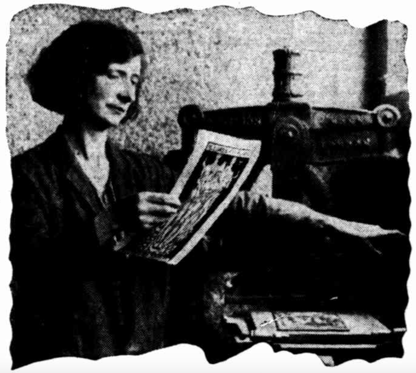 Christian Waller, née Yandell (2 August 1894 - 25 May 1954), Australian painter, writer, printmaker, illustrator, book designer, woodcutter and stained-glass artist.